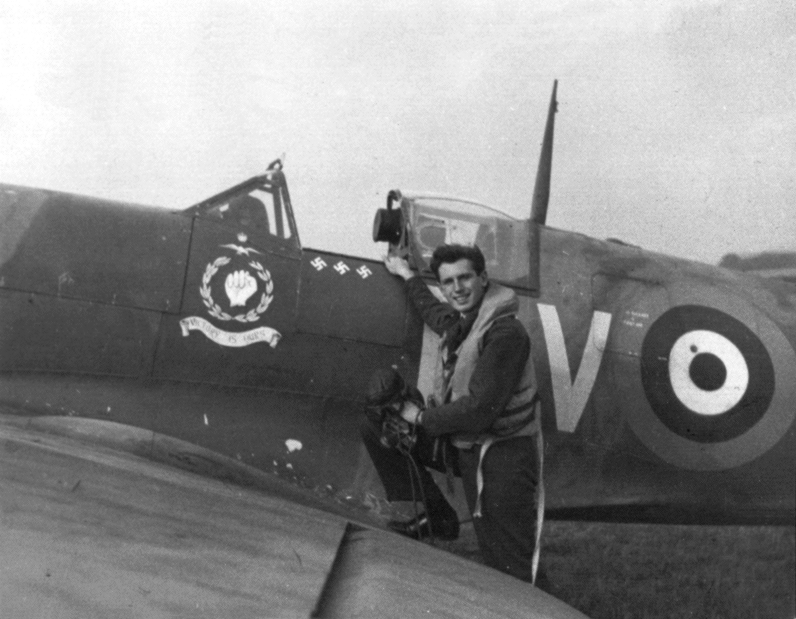 A photo of Royal Air Force Flight Lt. James Henry Whalen at RAF Tangmere with his newly customized Supermarine Spitfire after recording his third confirmed kill.